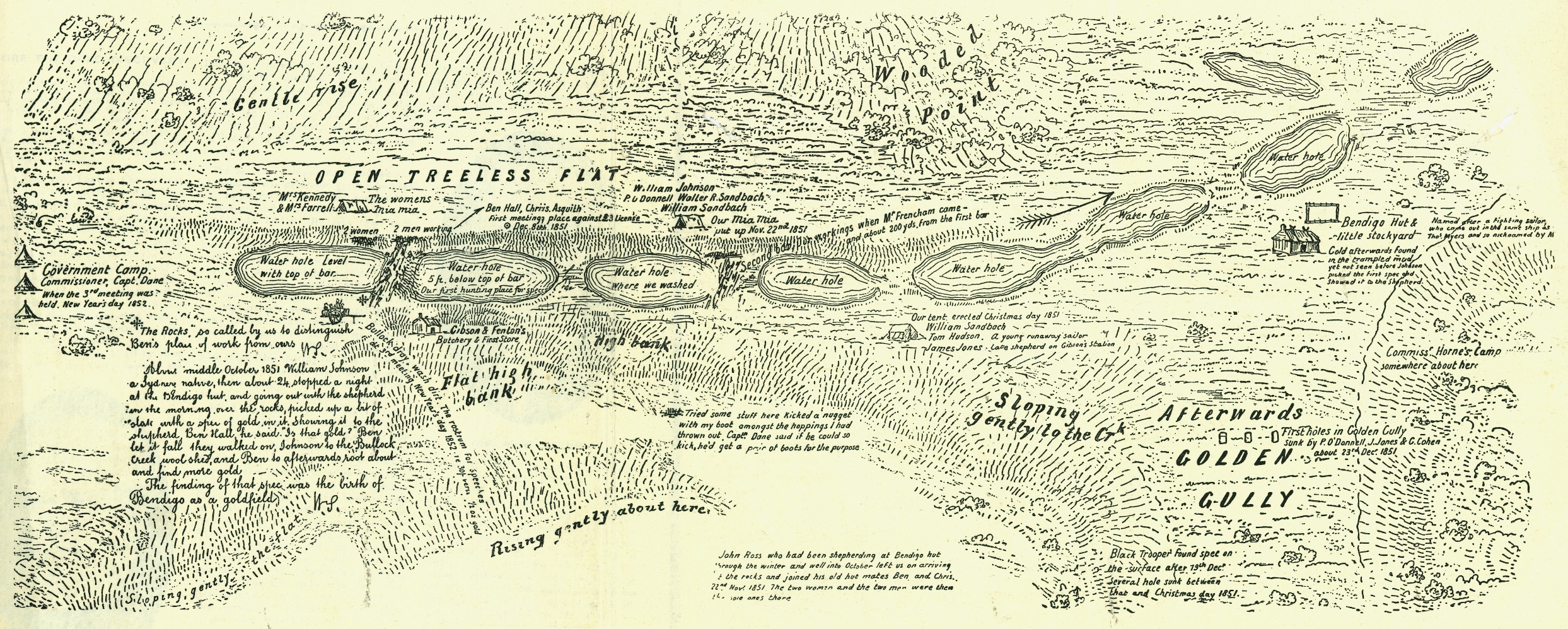 This remarkable sketch-map by shepherd William Sandbach tells the story of the birth of the Bendigo goldfield, detailing who was there and where their claims and camp sites were. (Sandbach believed that fellow shepherd William Henry Johnson had been the first to find gold at Bendigo.) Inadvertently Sandbach is also revealing the Aboriginal management of the land, showing the waterholes along the creek bed, treeless flats and wooded hills.